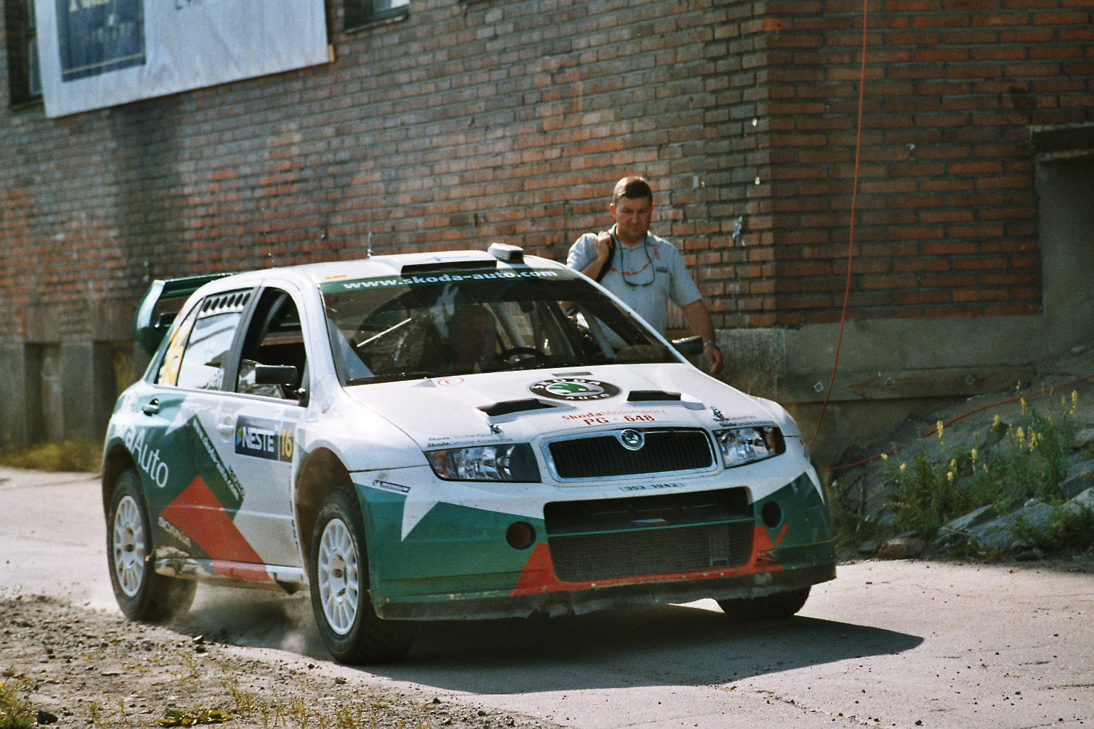 Action from the service park during the 2004 Rally Finland.